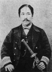 The Japanese Admiral Enomoto Takeaki at the time of Republic of Ezo